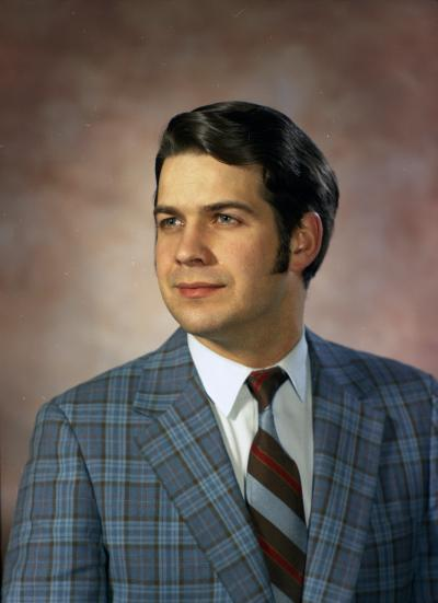 Representative King Lysen, 1971